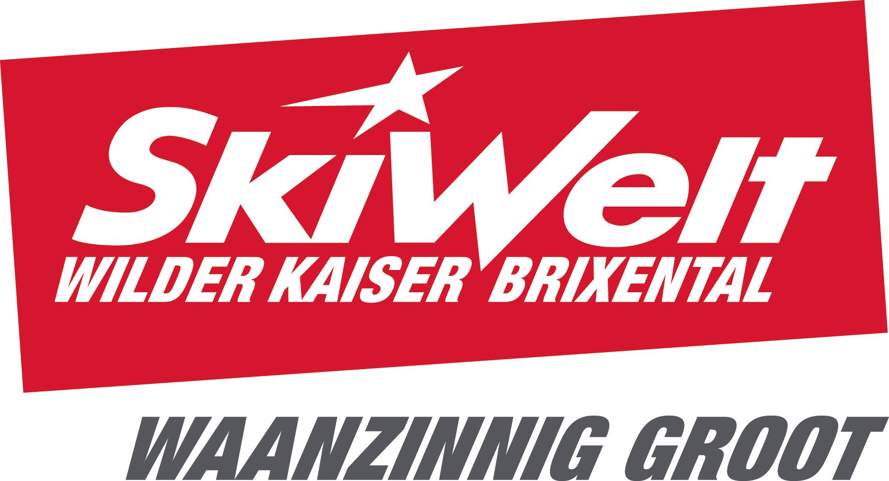 The logo of the Skiwelt skiing area